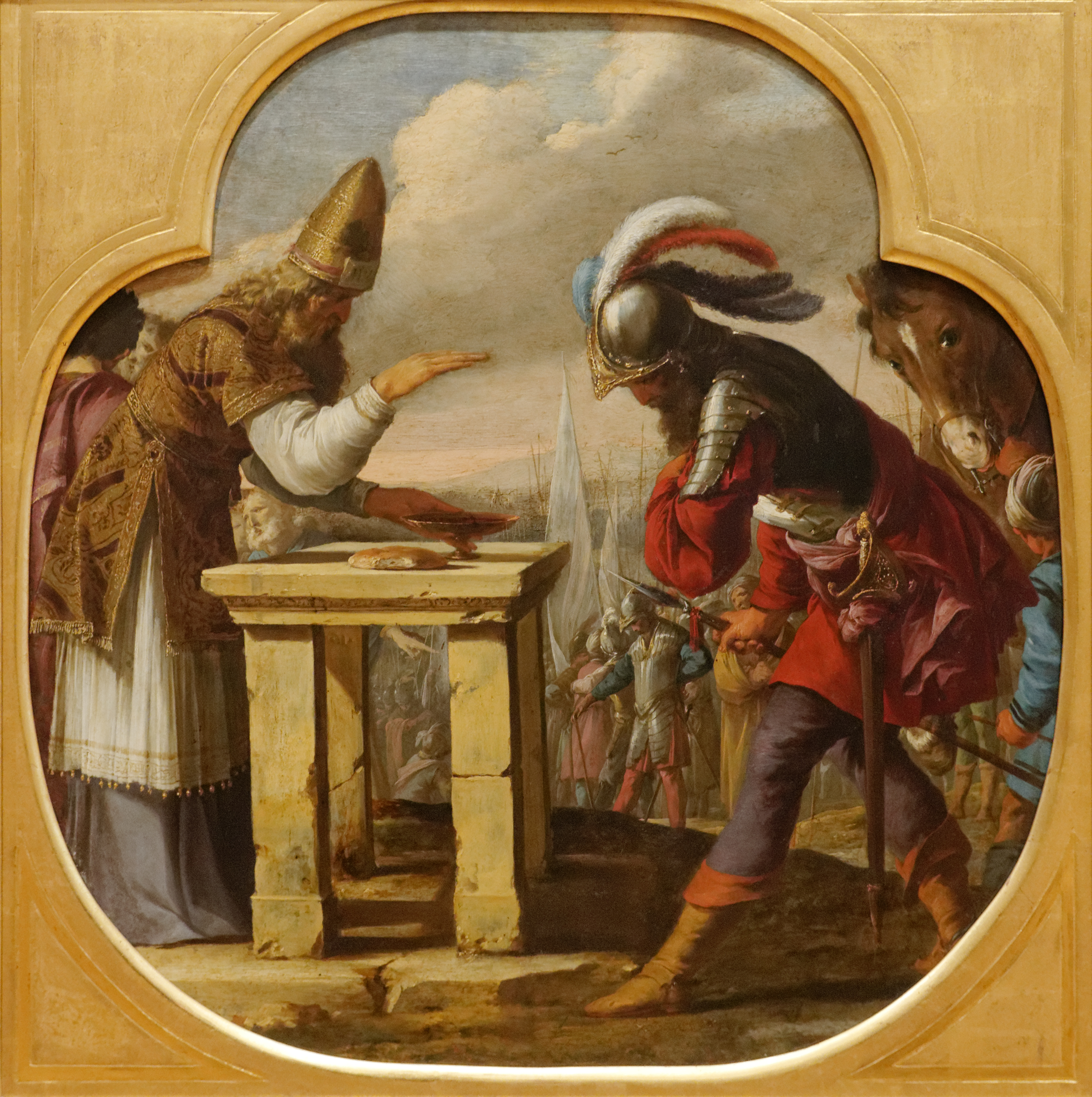 From the tabernacle of the Capuchin convent in the Marais, Paris.